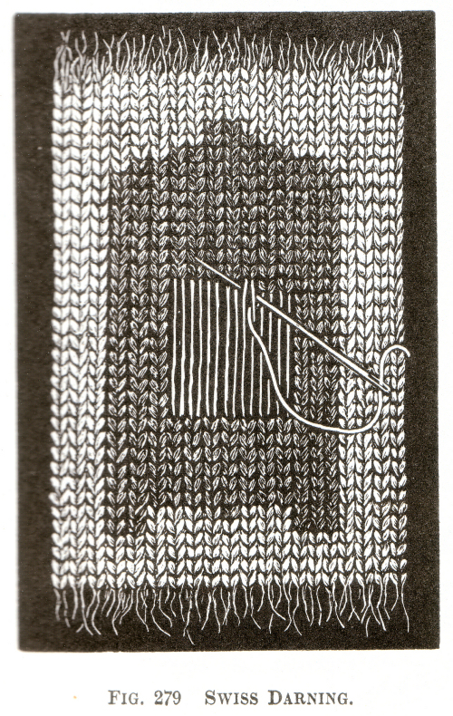 Illustration of Swiss darning to repair stockinette-stitch knit.